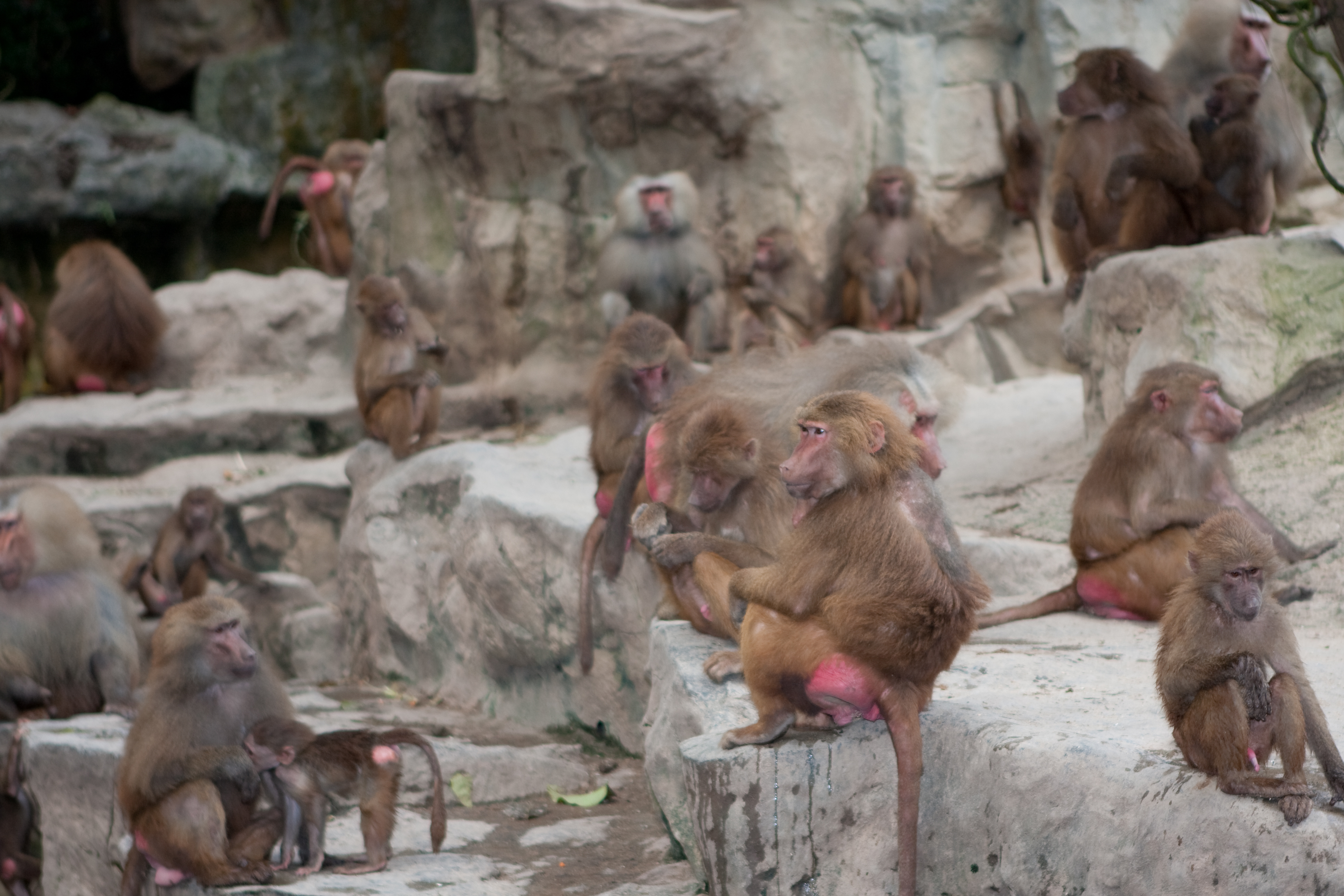 Waiting to be fed by the tourists. Mandai, Singapore, January 2010